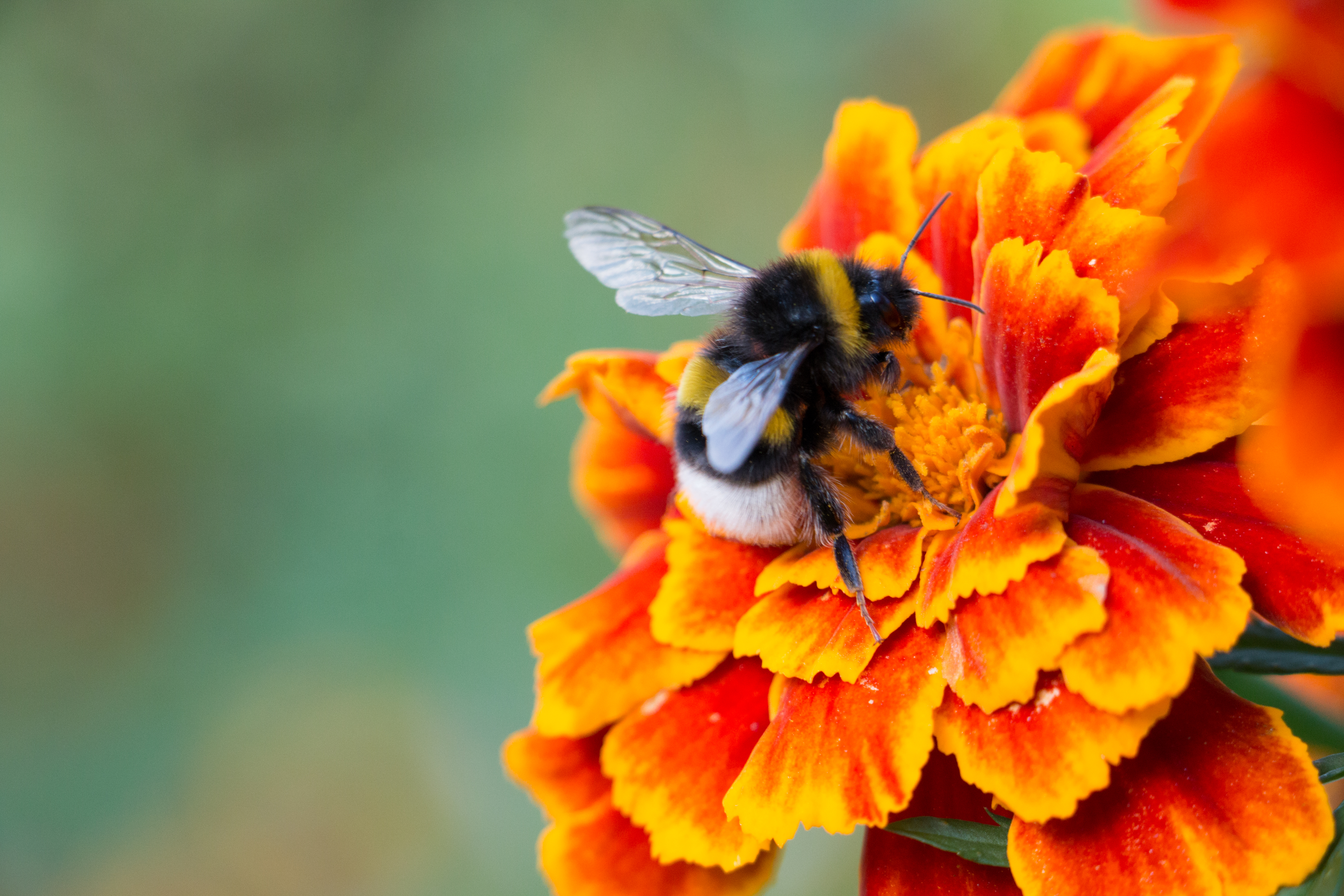 Humblebee.on.a.flower